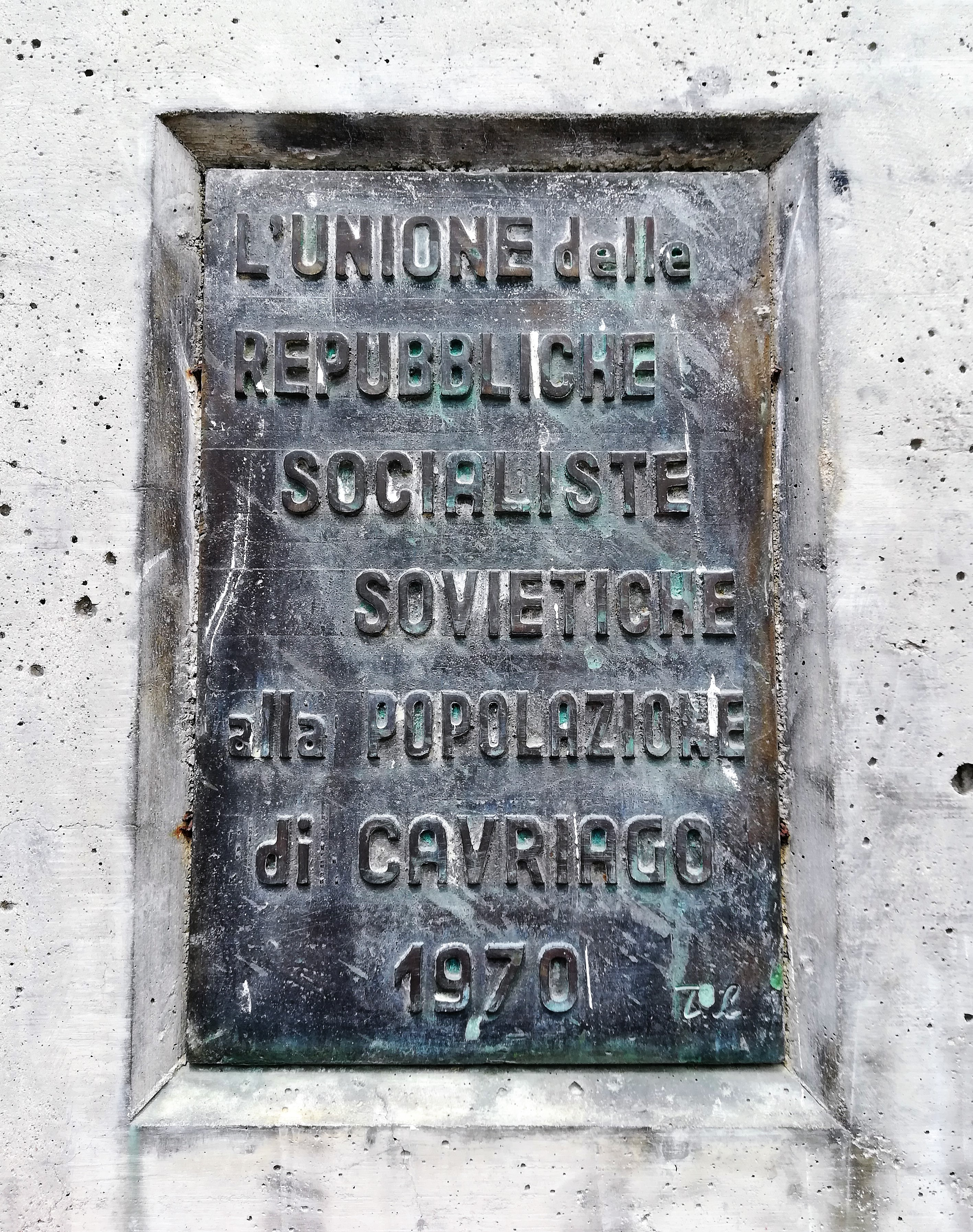 Detailed of Lenin's Bust- Cavriago (Province of Reggio Emilia)